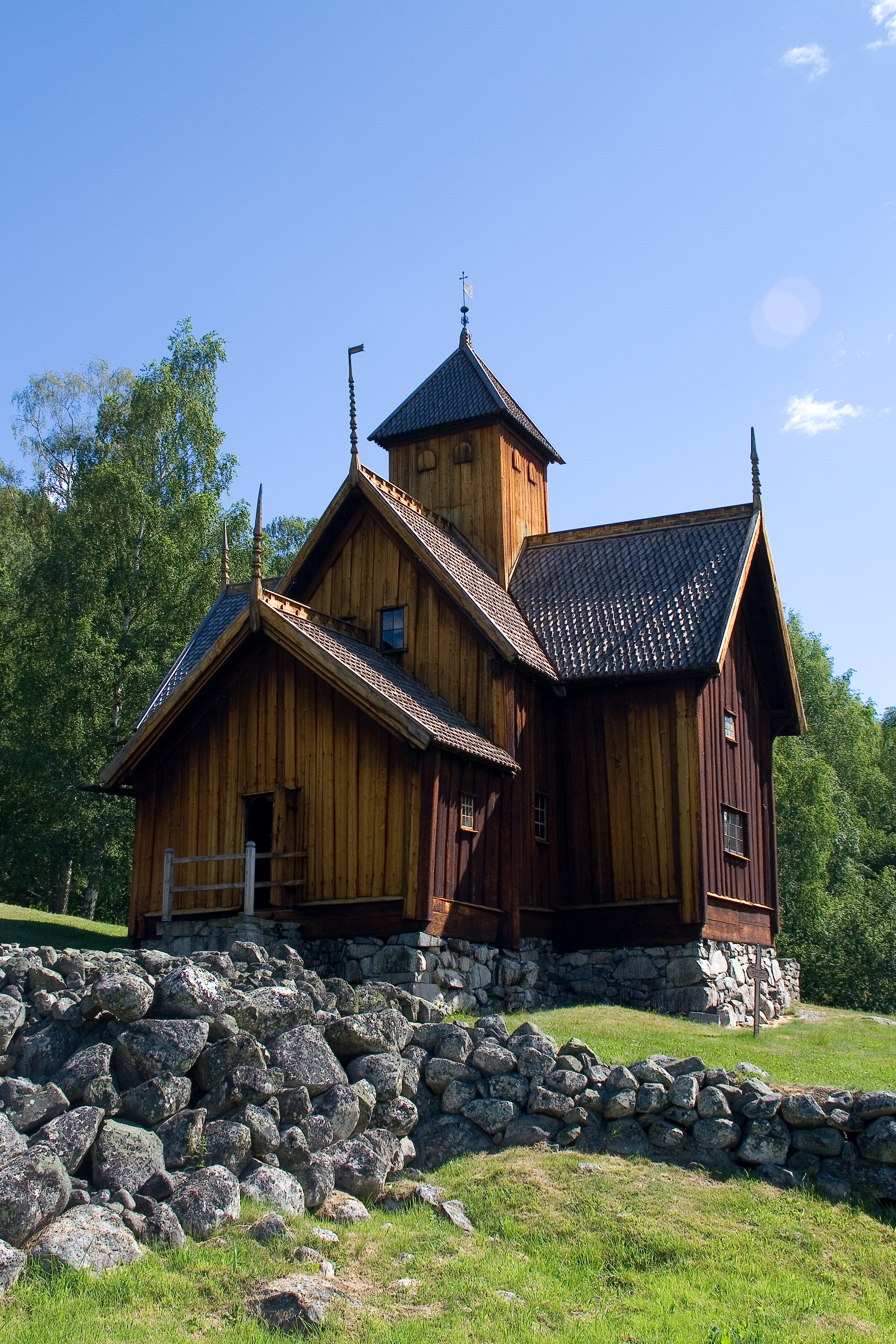 Uvdal stavechurch, Nore og Uvdal, Buskerud, Norway